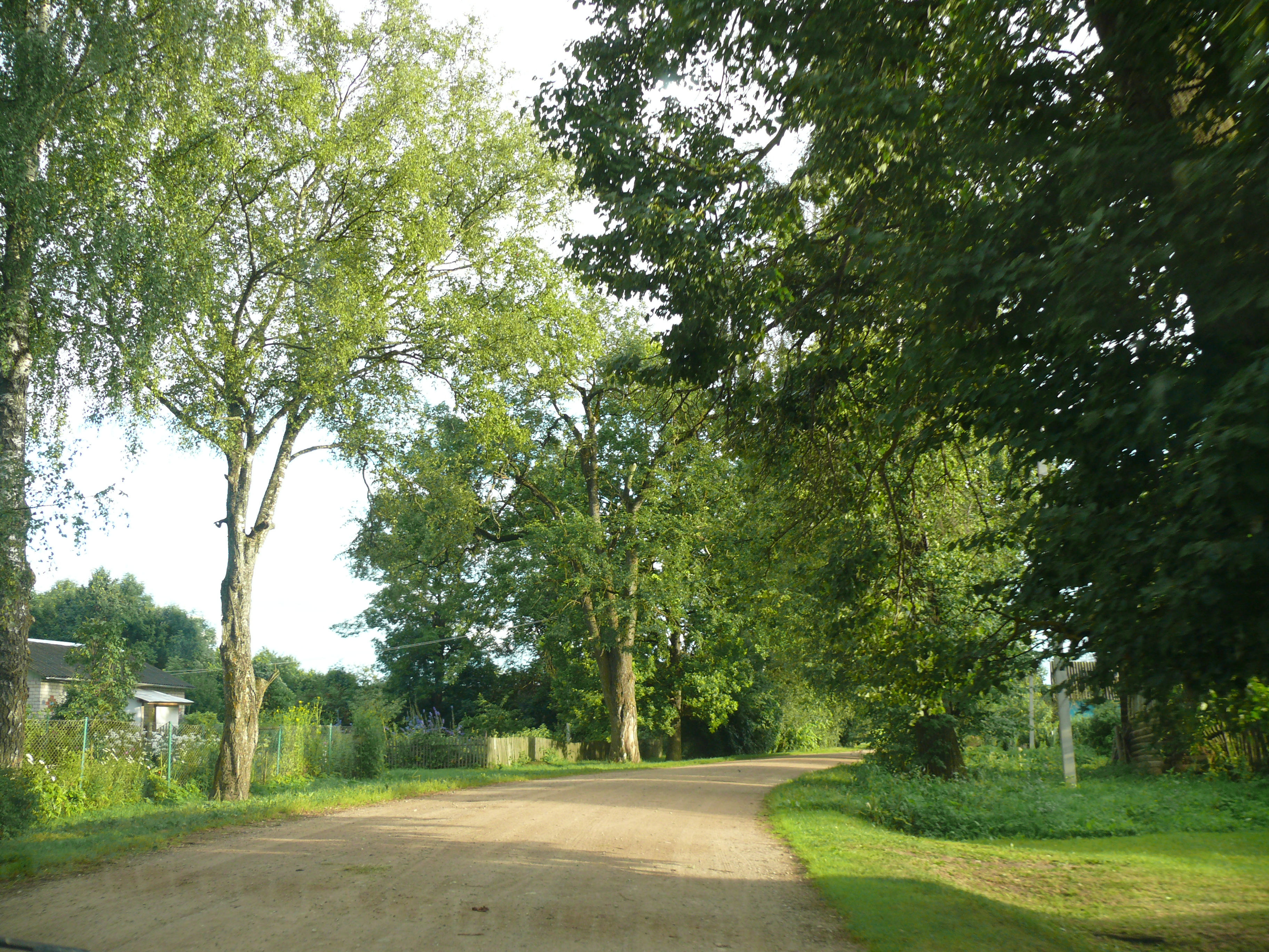 Ugly village, Shimsky District, Novgorod Oblast